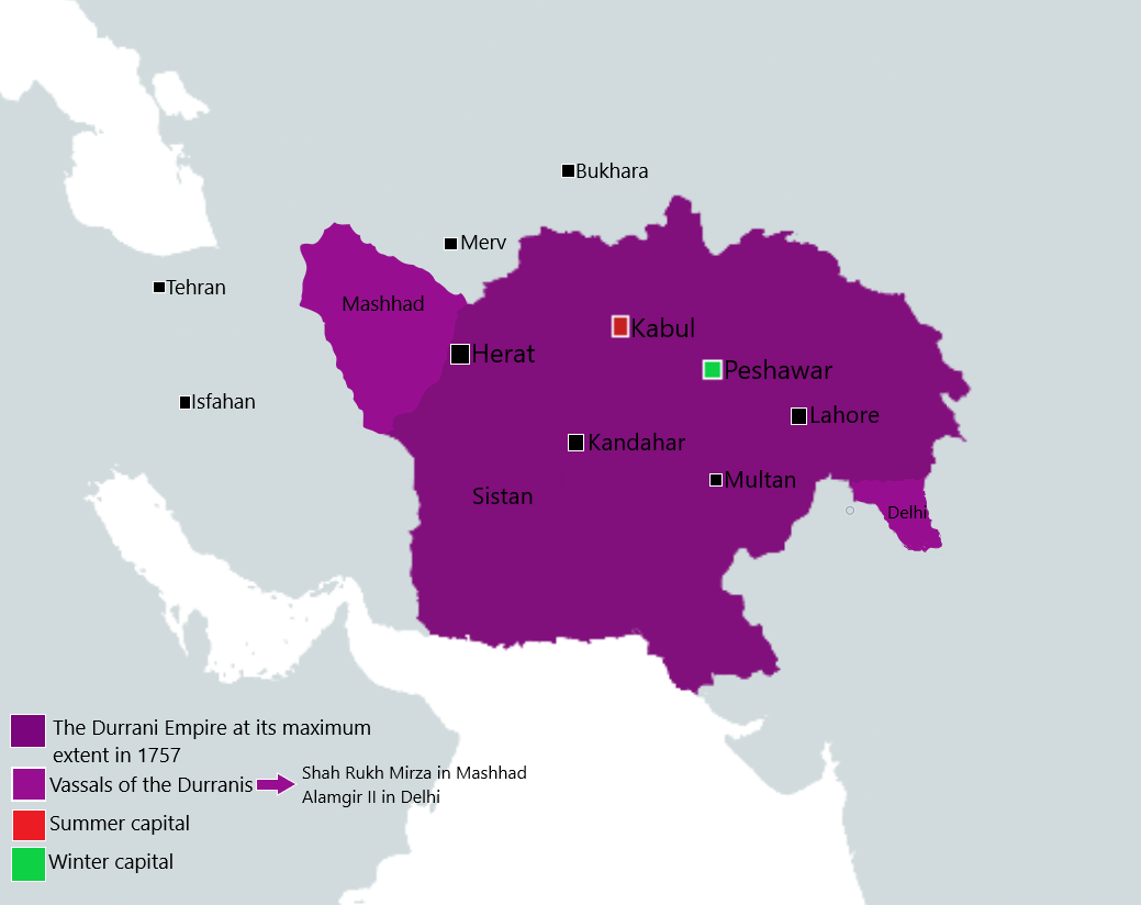 The Durrani Empire at its maximum extent under Ahmad Shah Durrani in 1757.